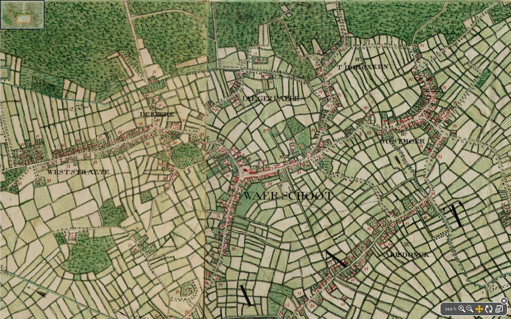 Waarschoot,_Belgium,_Ferraris,_1775.jpg